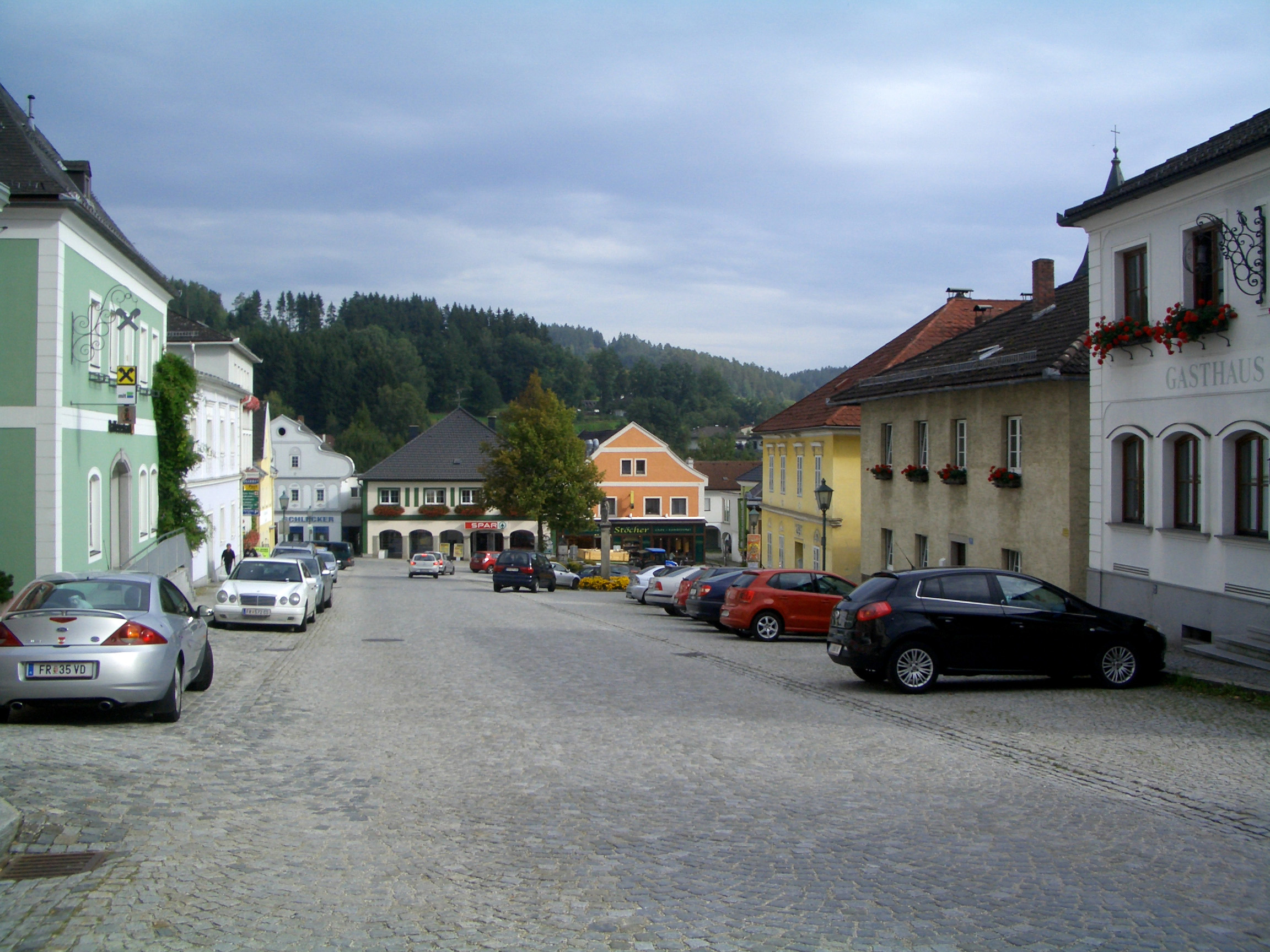 Central place of Bad Zell, Upper Austria